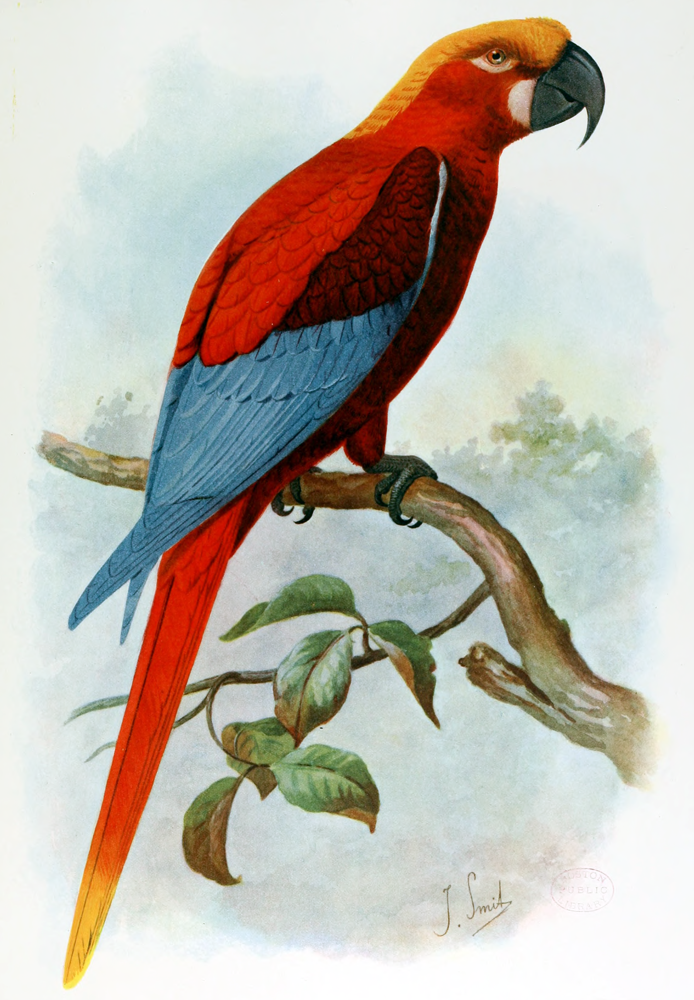 The Jamaican Red Macaw (Ara gossei) may have been a species of parrot in the Psittacidae family that was endemic to Jamaica, but its existence is hypothetical.